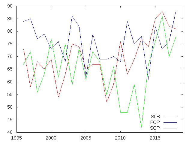 Portuguese soccer championship, points from 1996 to 2018